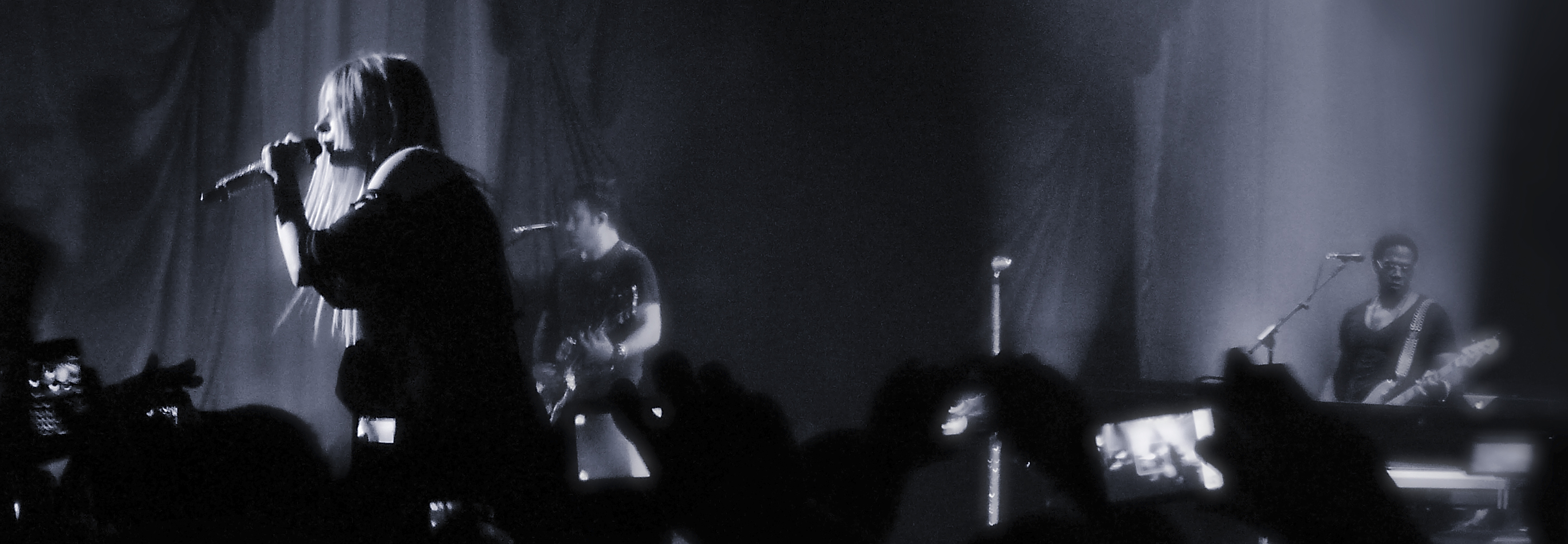 Avril Lavigne singing to the crowd in Hammersmith, London, England, during her Black Star Tour on September 21, 2011. Photographed on a Panasonic DMC-TZ5.